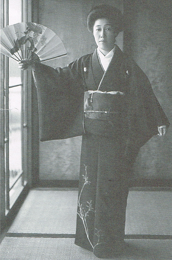 Sata Matsumoto, a famous Japanese dancer of the style of Inoue in Gion, Kyoto, Japan